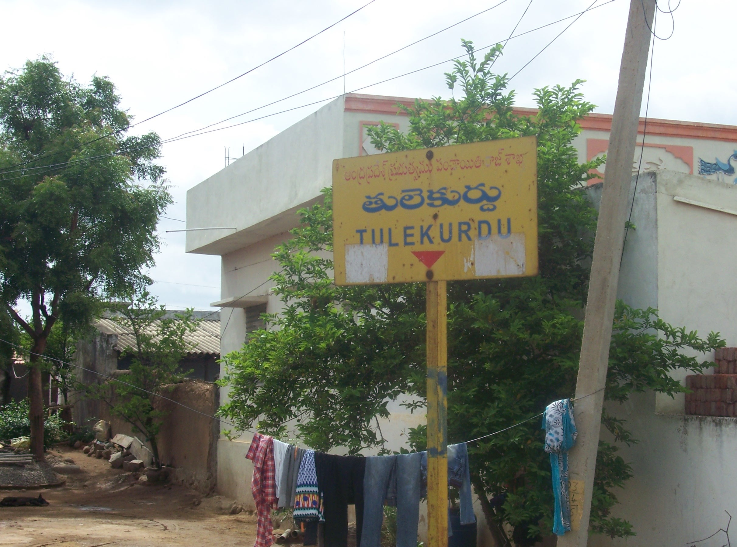 Tulekurdu villaage